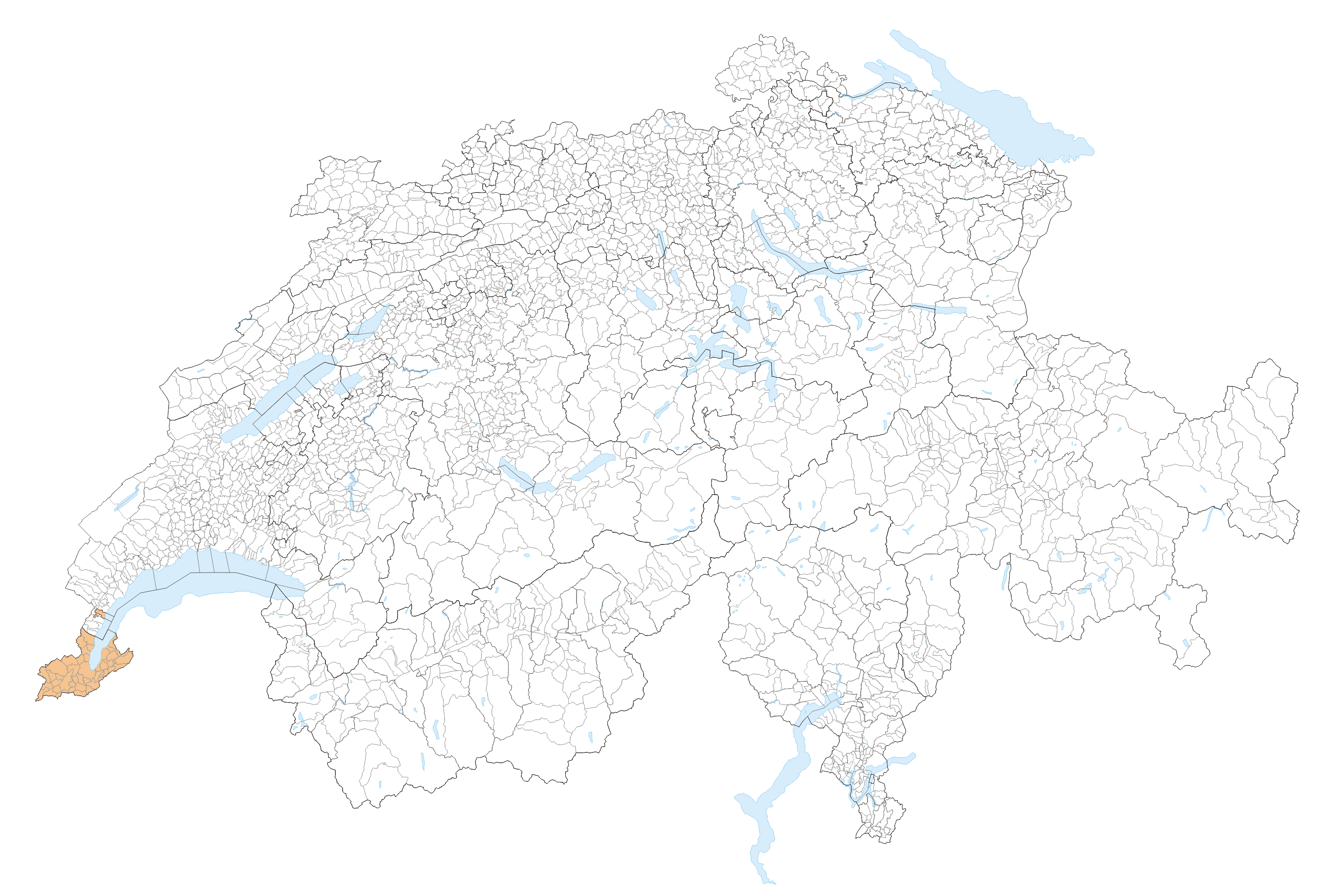 Kanton Genf